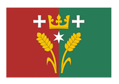 flag